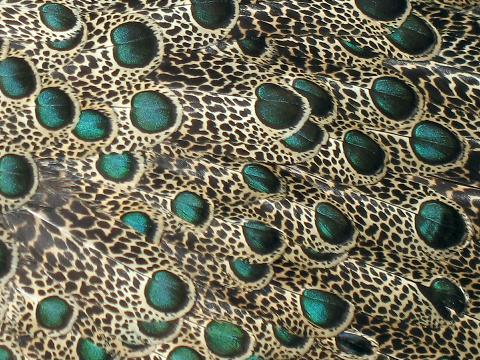 Description: Malayan Peacock Pheasant's feathers - Source: own work - Location: Bronx Zoo, New York - Author: self, User:Stavenn